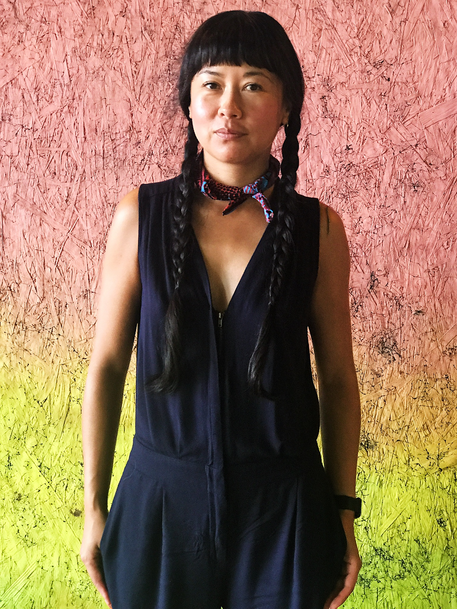 Portriat of Jen Delos Reyes